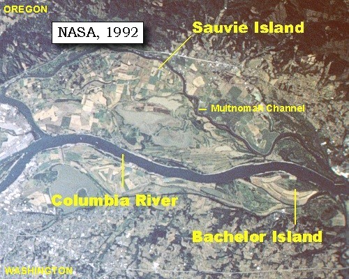 Map created from satellite image looking south at Sauvie Island and Bachelor Island in the Columbia River